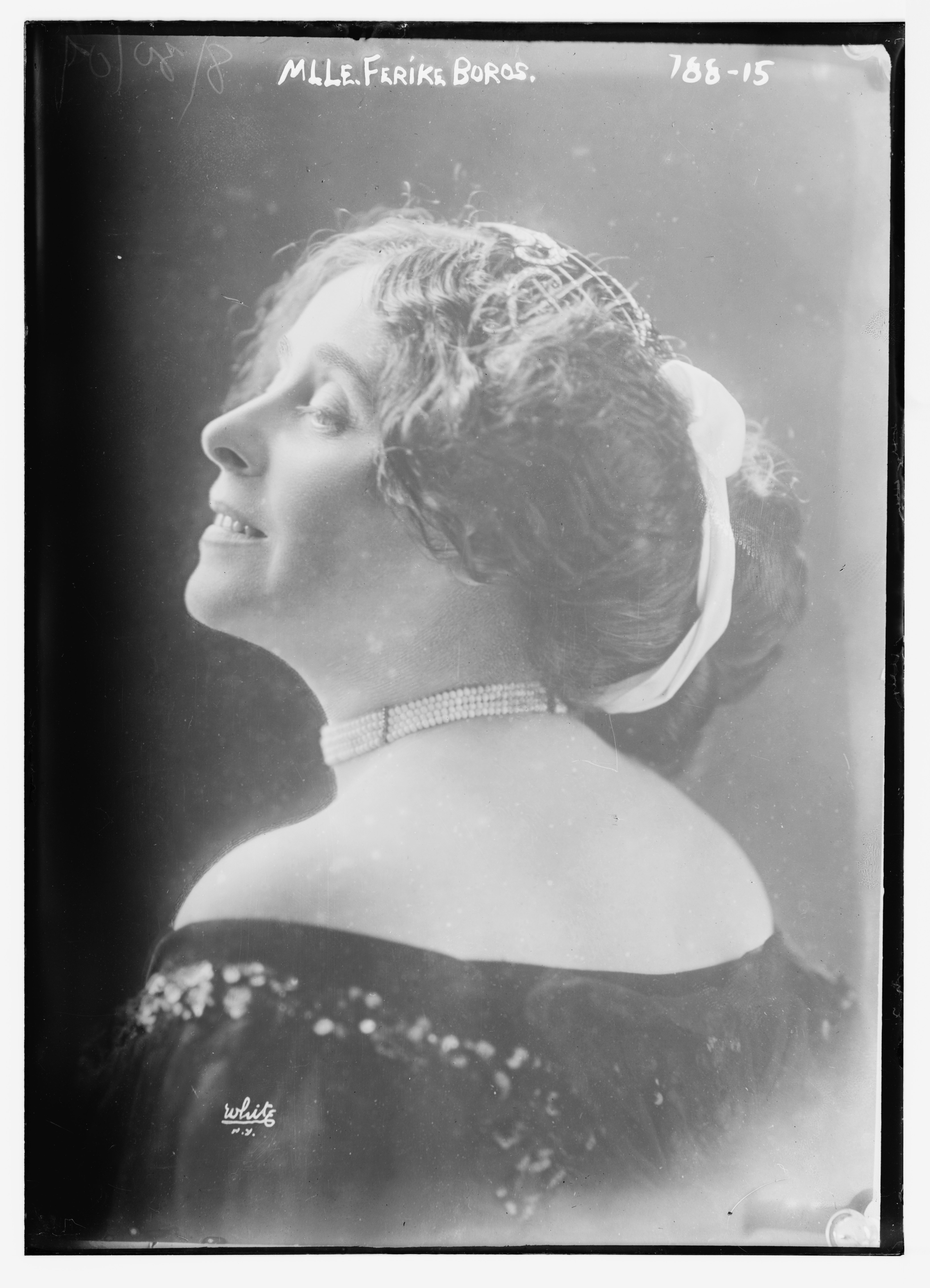 Title: Mlle. Ferike Boros, White Abstract/medium: 1 negative : glass ; 5 x 7 in. or smaller.